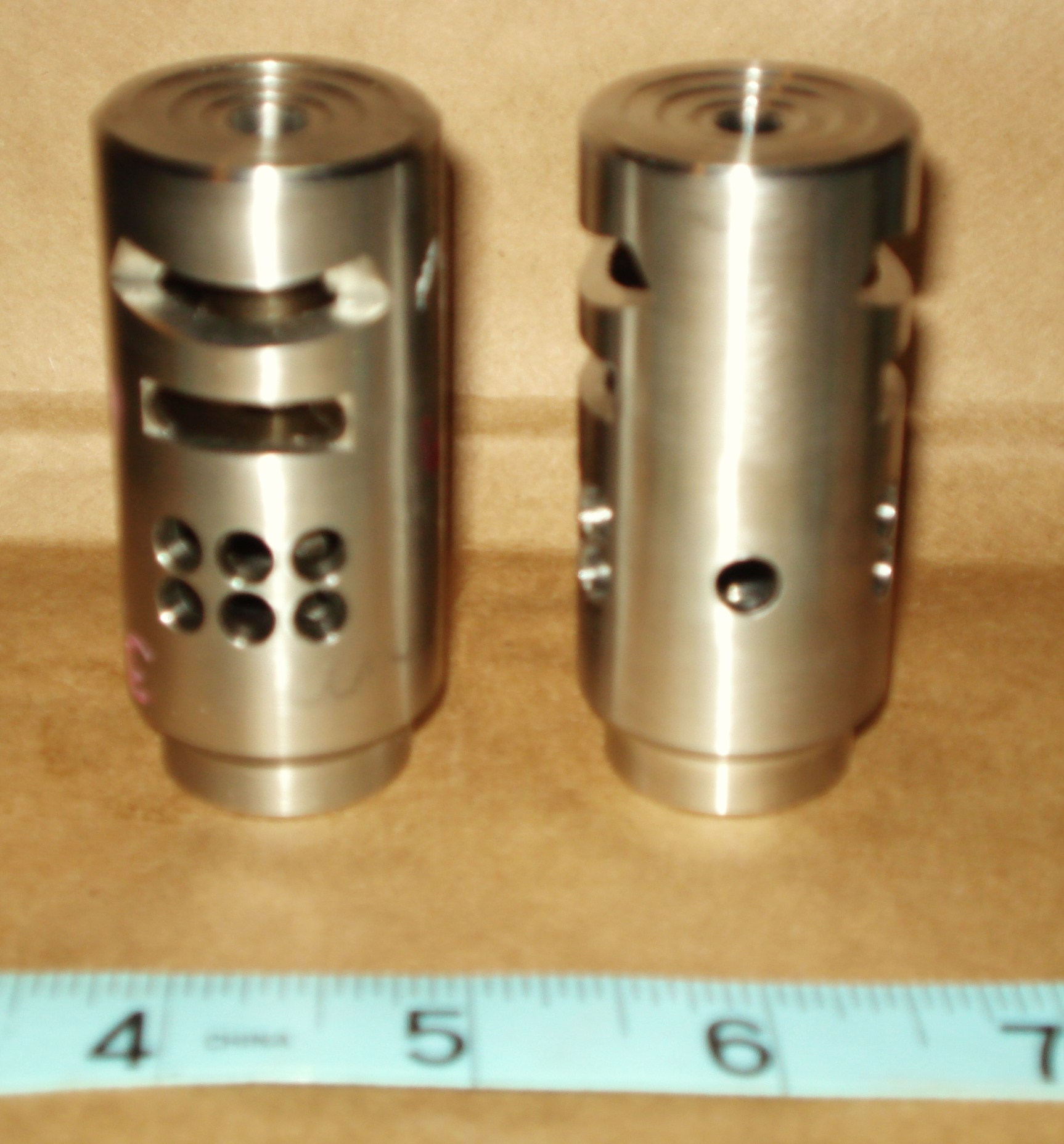 PGRS-1 muzzle brake